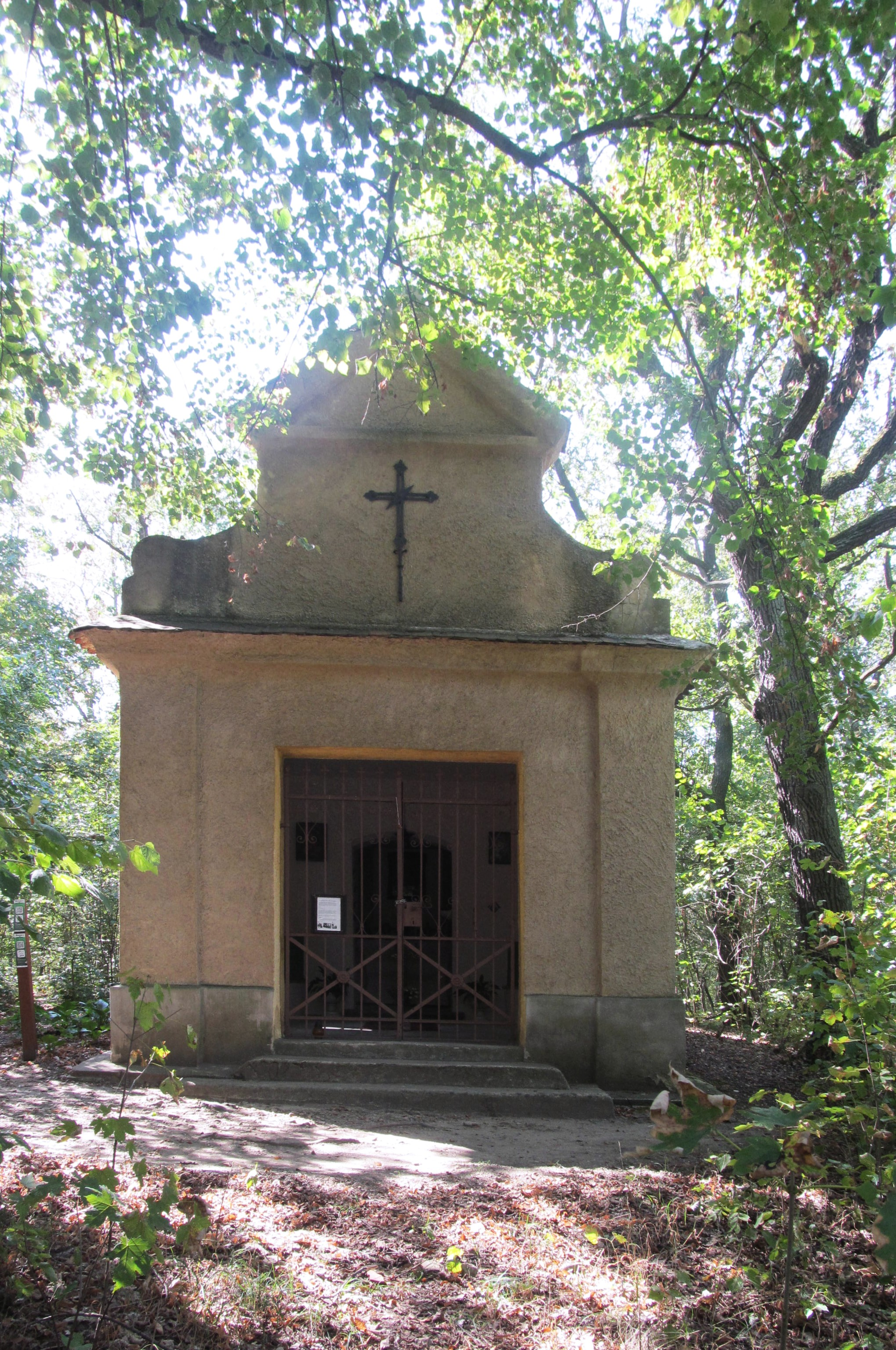 Chapel of the Visitation in the forests near Libochovany